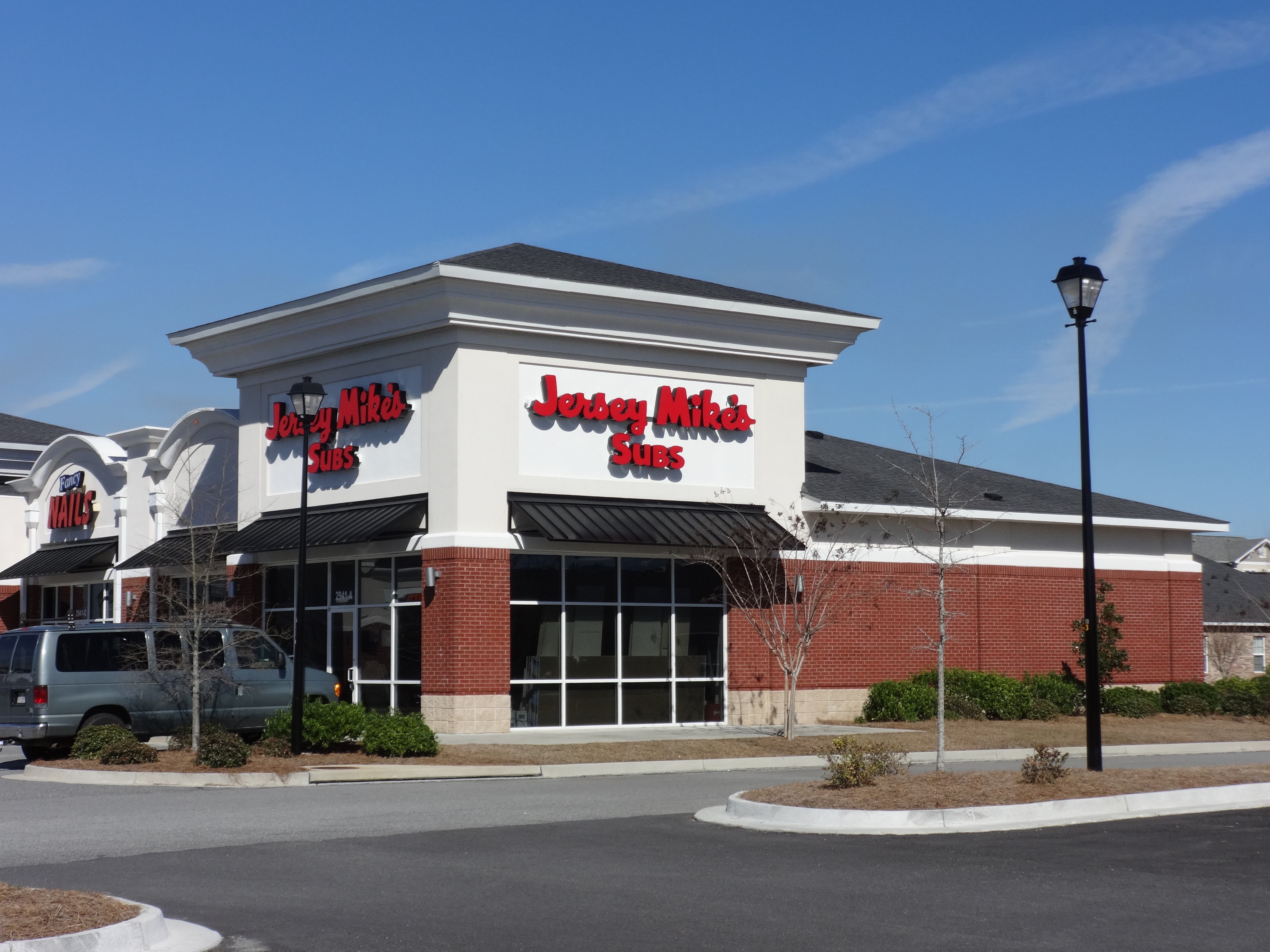 Jersey Mike's Subs, Valdosta, Lowndes County, Georgia. This location opened March 5, 2015.